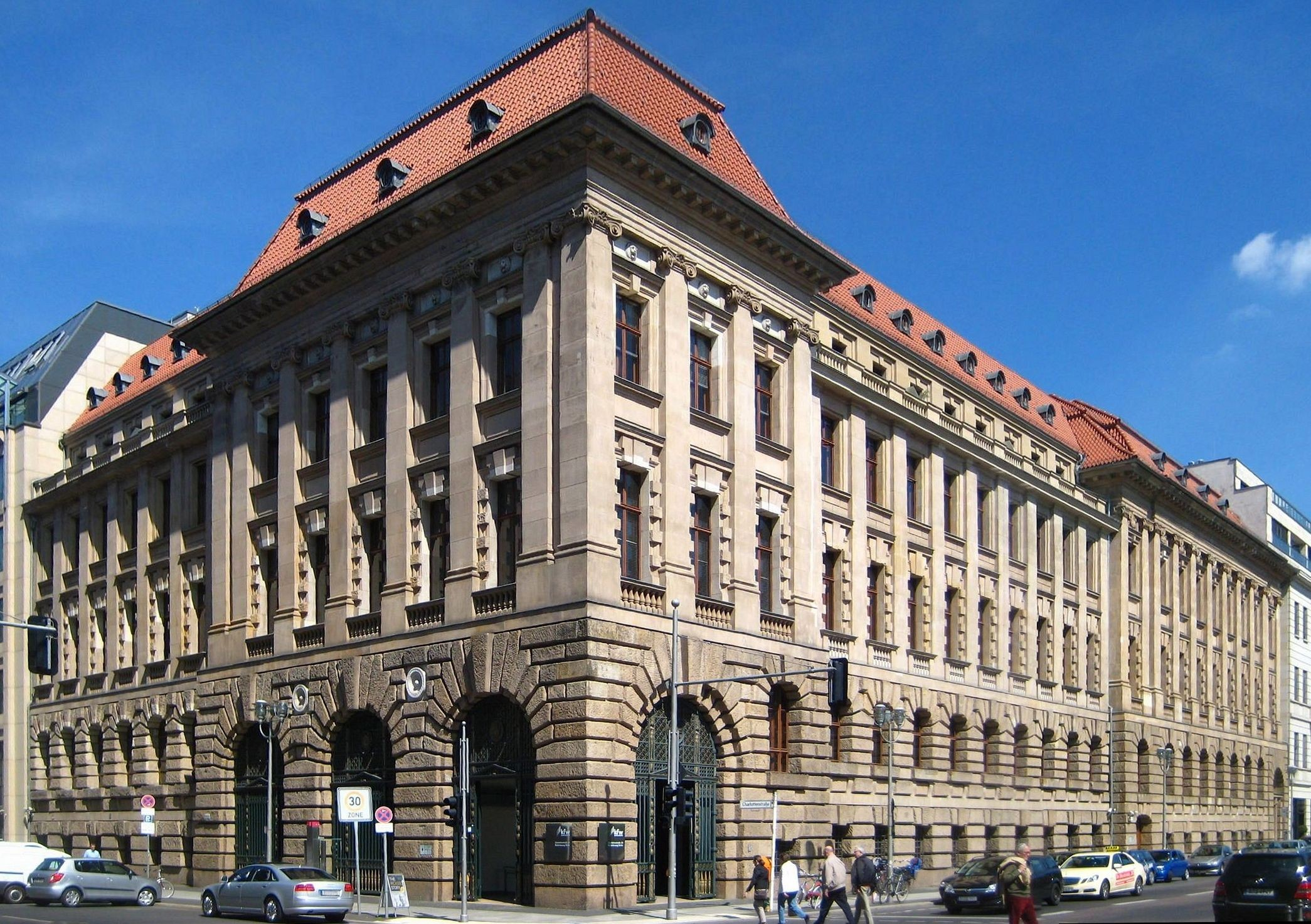 The Berlin seat of the Kreditanstalt für Wiederaufbau at Charlottenstraße 33/33A, corner of Französische Straße (on the right), in Berlin-Mitte. The building was constructed 1909-1911 to a design by Heinrich Schweitzer as annex to the building of Berliner Handelsgesellschaft on Behrenstraße. The whole complex has been designated a historic landmark.